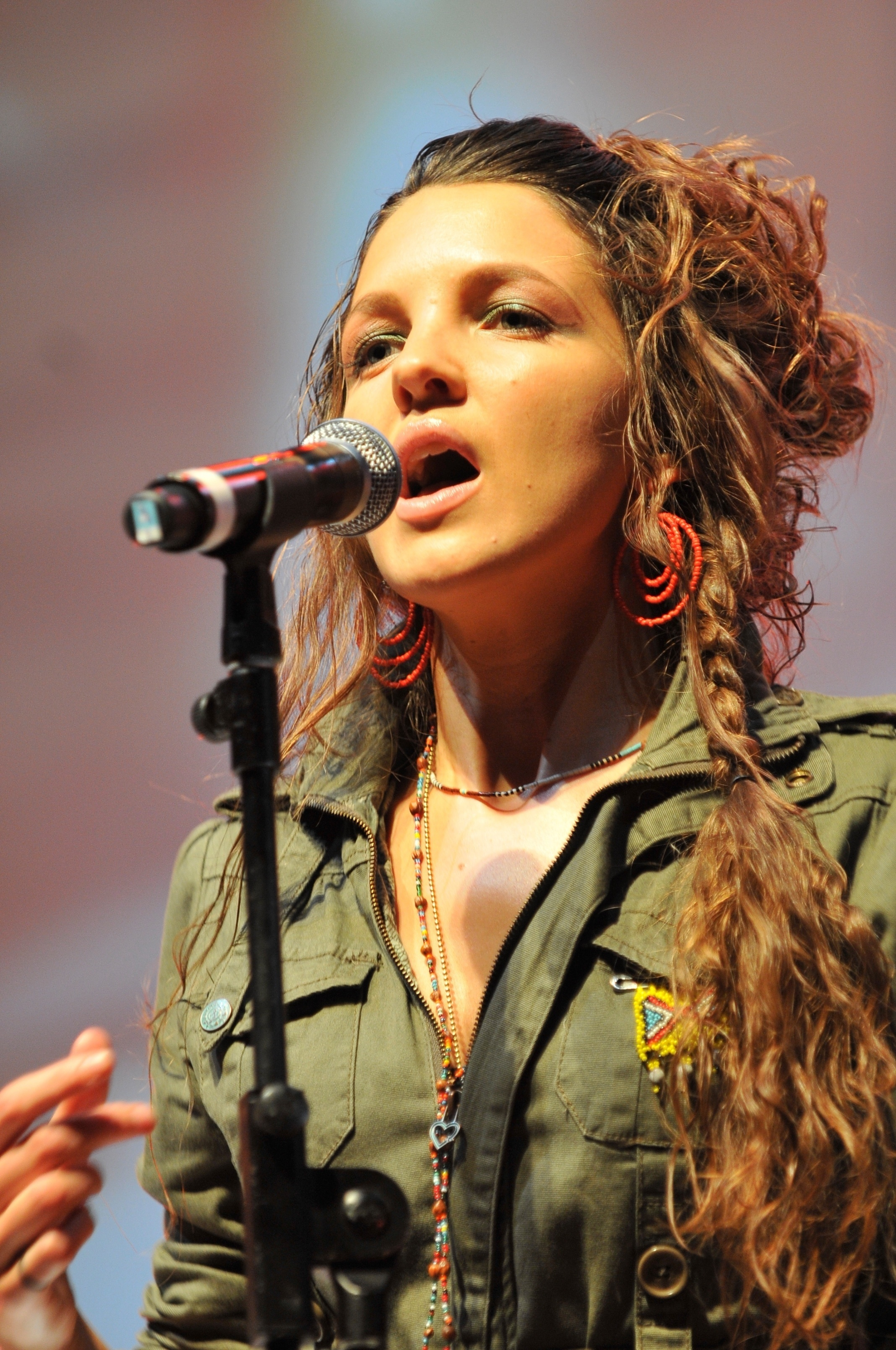 Aruba Red performing live at the Royal Festival Hall. Photo by Michael Antoniou, 2009